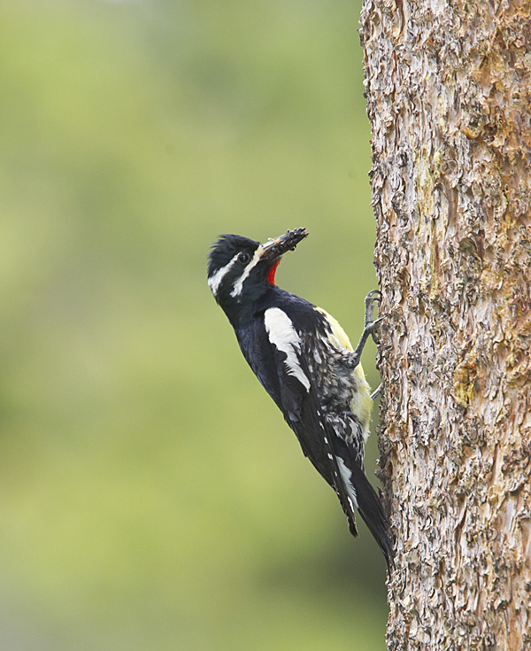 Williamson's Sapsucker